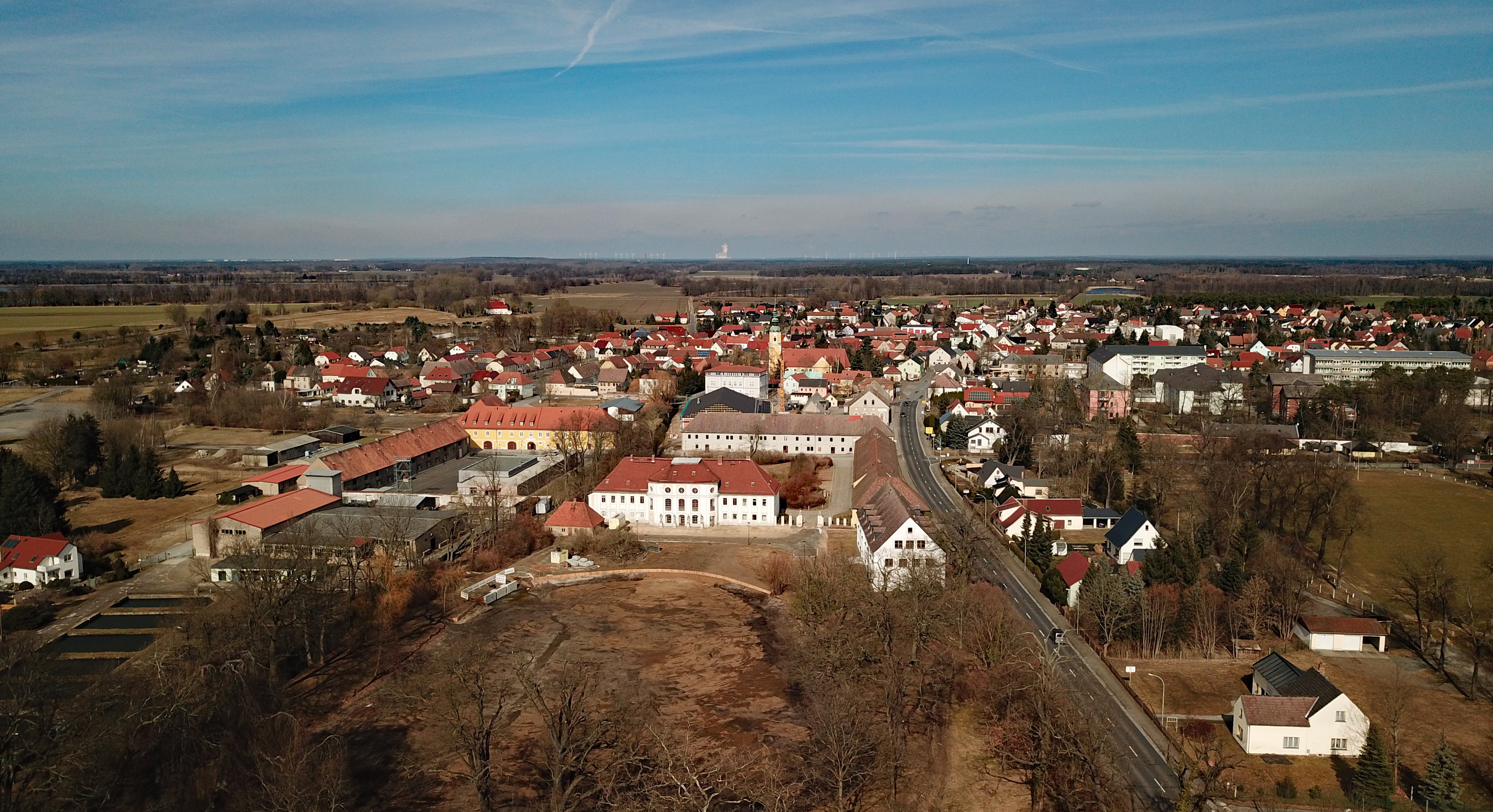 Königswartha (Saxony, Germany) Hornjoserbsce: Powětrowy wobraz Rakec z juha